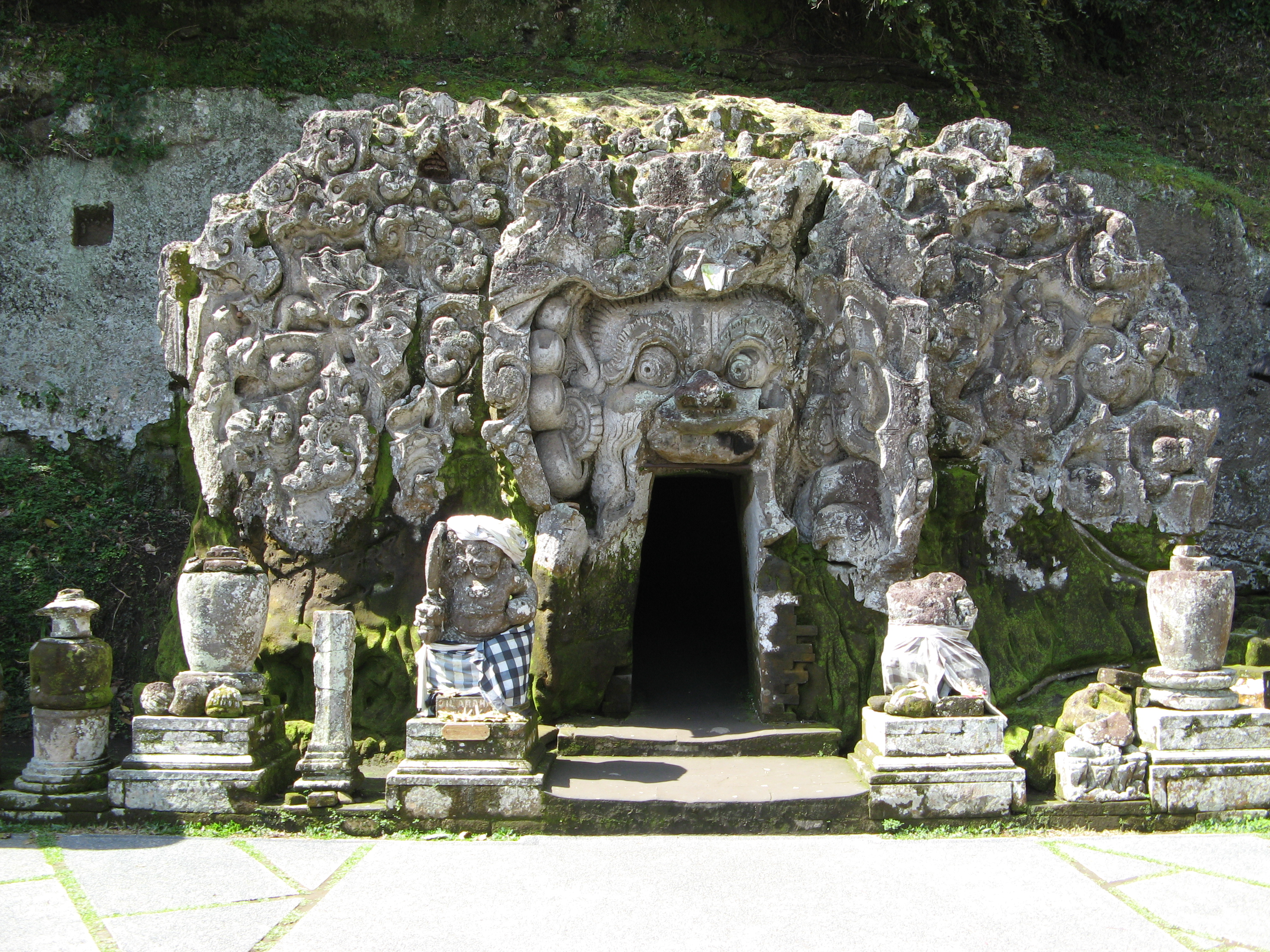 This cave's most celebrated feature is the female kala (notice the earrings), probably representing the witch Rangda, who peers out above the entrance. Her eyes look to the right, a pose not otherwise known in Indonesia, where eyes-ahead or eyes-left is the usual rule. Rangda's hands are amusingly positioned on either side of her head, as if she is pushing aside the rock to give herself a better view. Her figure was found in damaged condition, and has been heavily restored. She is surrounded by a freely-carved scene of mountains, forests, and clouds, among which some smaller figures are visible. . The statues in front of the cave are not in their original position; they are leftovers from the excavation, moved here for display.